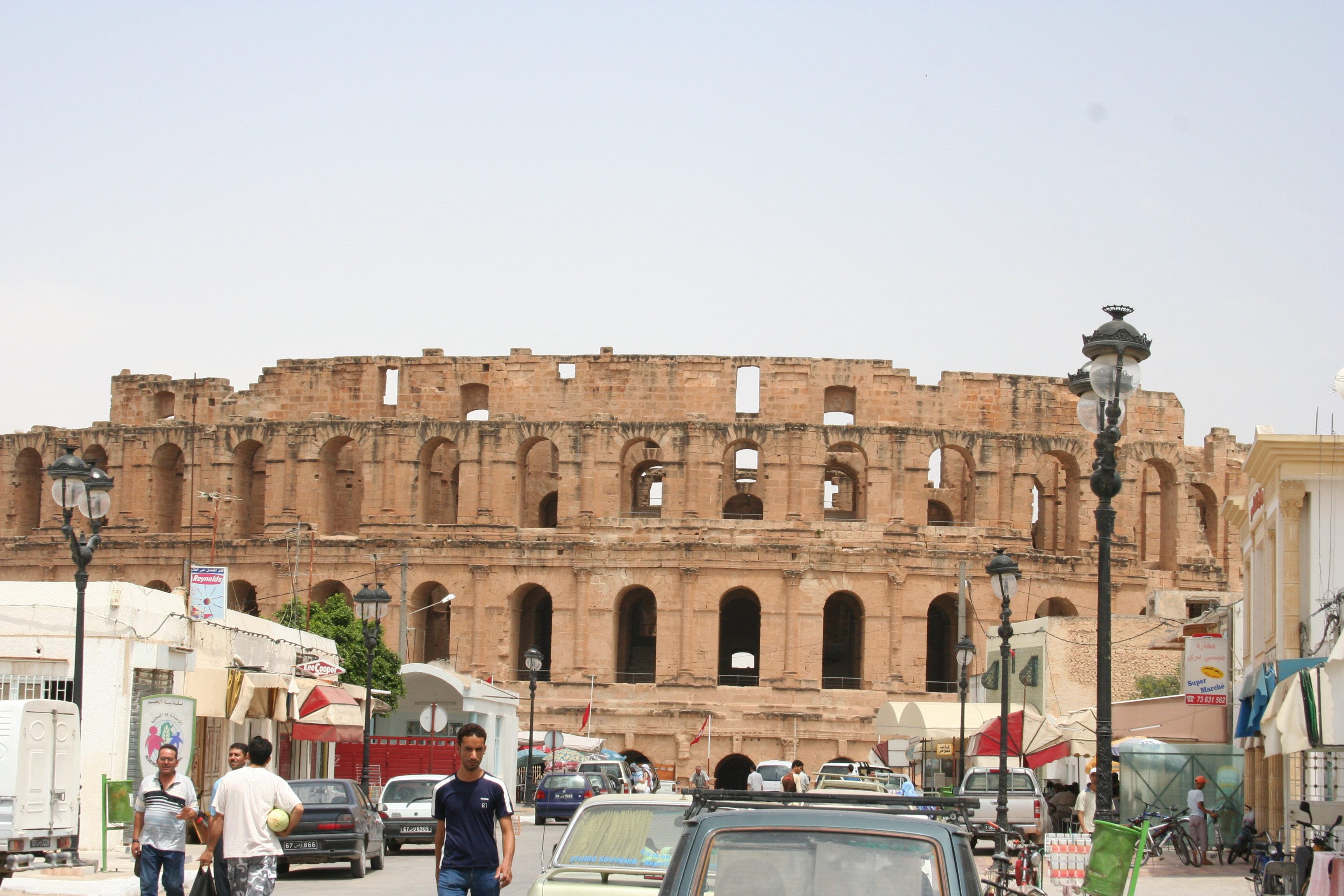 The El Djem colosseum rising from the modern city that bears it's name